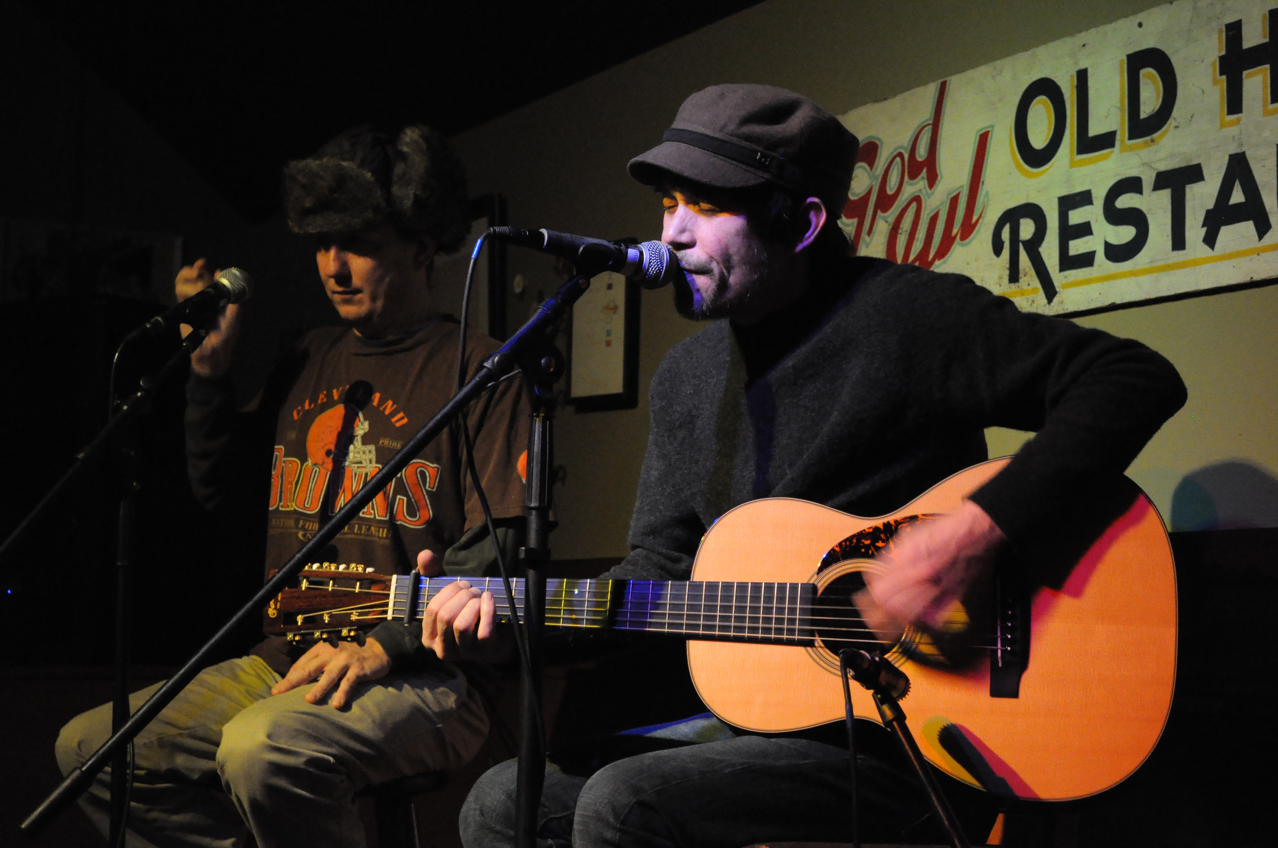 Rusty Willoughby (foreground) with Scott Sutherland of the Model Rockets, performing at Hattie's Hat, Ballard, Seattle, Washington as part of Reverb.